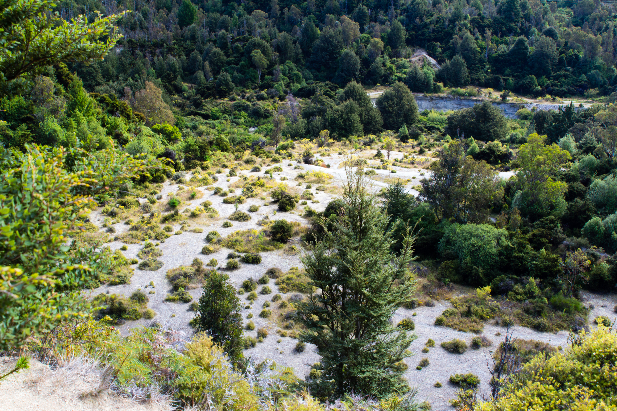 Twelve Mile Delta, near Queenstown, New Zealand. Filming location of "Ithilien Camp" in the Lord of the Rings trilogy